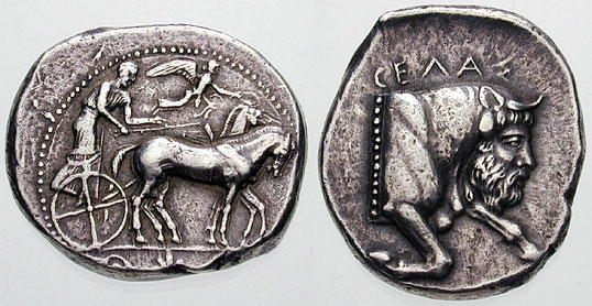 A Greek Silver Tetradrachm of Gela (Sicily), an Exceptional Man-headed Bull on the Reverse. Sicily, Gela. AR Tetradrachm (17.45 g). Tetradrachm circa 420-415, AR 17.31 g. above, Nike flying l. to crown horses. Rev. ΓEΛAΣ Forepart of man-headed bull r. SNG ANS 93. KraayHirmer 162 (this coin). Rare. A superb reverse in the finest Classical style perfectly struck and with a lovely old cabinet tone. The reverse, as usual, from a worn die, otherwise good extremely fine Ex NAC 9, 1996, 154; NAC 18, 2000, 85 and LHS 102, 2008, 59 sales. From the A.D.M. and Star collections. Charioteer driving walking quadriga right, holding kentron in right hand, reins in both; Nike flying above crowning horse's, palmette with tendrils in exergue CELAS, forepart of man-headed bull right. Jenkins 354.2 (O68/R140 - this coin); SNG ANS 65 (same dies). Jenkins 473.9 (this coin, illustrated on pl. 27 and with the reverse enlarged on pl. 51). Although the city was a Creto-Rhodian foundation of the seventh century BC, the name of the river and later the city is of local Sicanian origin, meaning very cold, as the water is, running from the Heraei mountains to the north. The rather brutal half-length figure of the man-faced bull swimming right is based on the 'father of all rivers', Achelous, and is clearly identified by the ethnic Gelas as the personification of the river rushing to its mouth, where the city Gela stood. It was defined by Virgil (Aen. 3, 702) as: 'immanisque Gela fluvii cognomina dicta'.